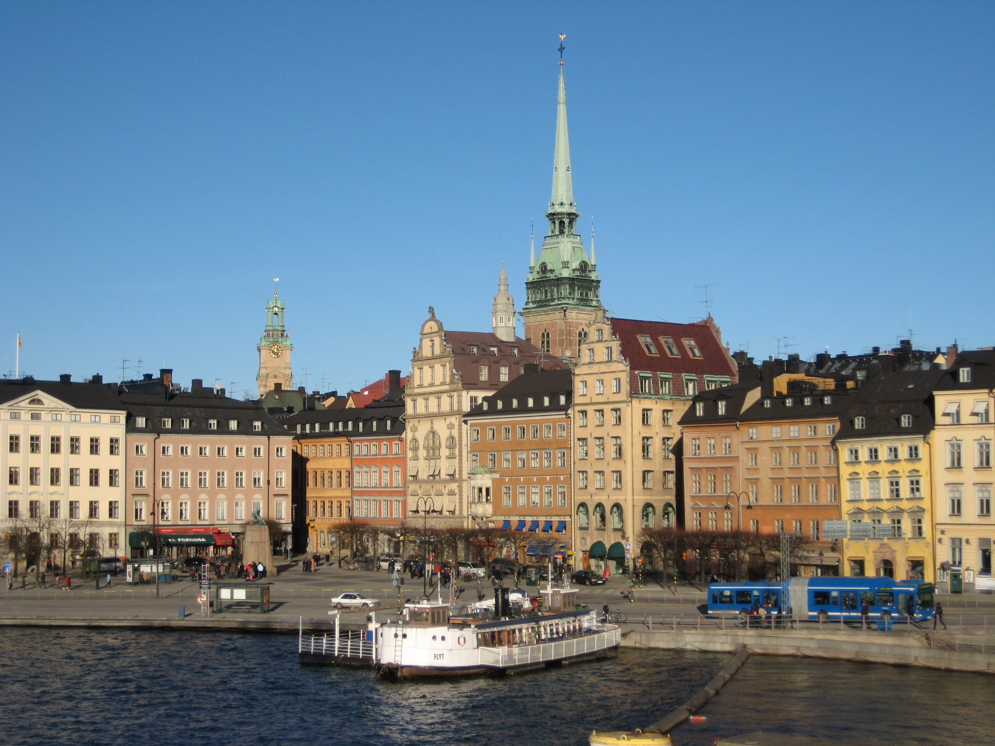 Kornhamnstorg in Gamla Stan, seen from Slussen (Stockholm, Sweden)